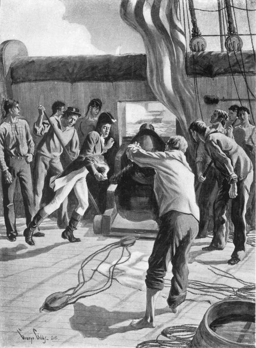 Crewmen of Chesapeake prepare one cannon shot during the Chesapeake-Leopard Affair in 1807.